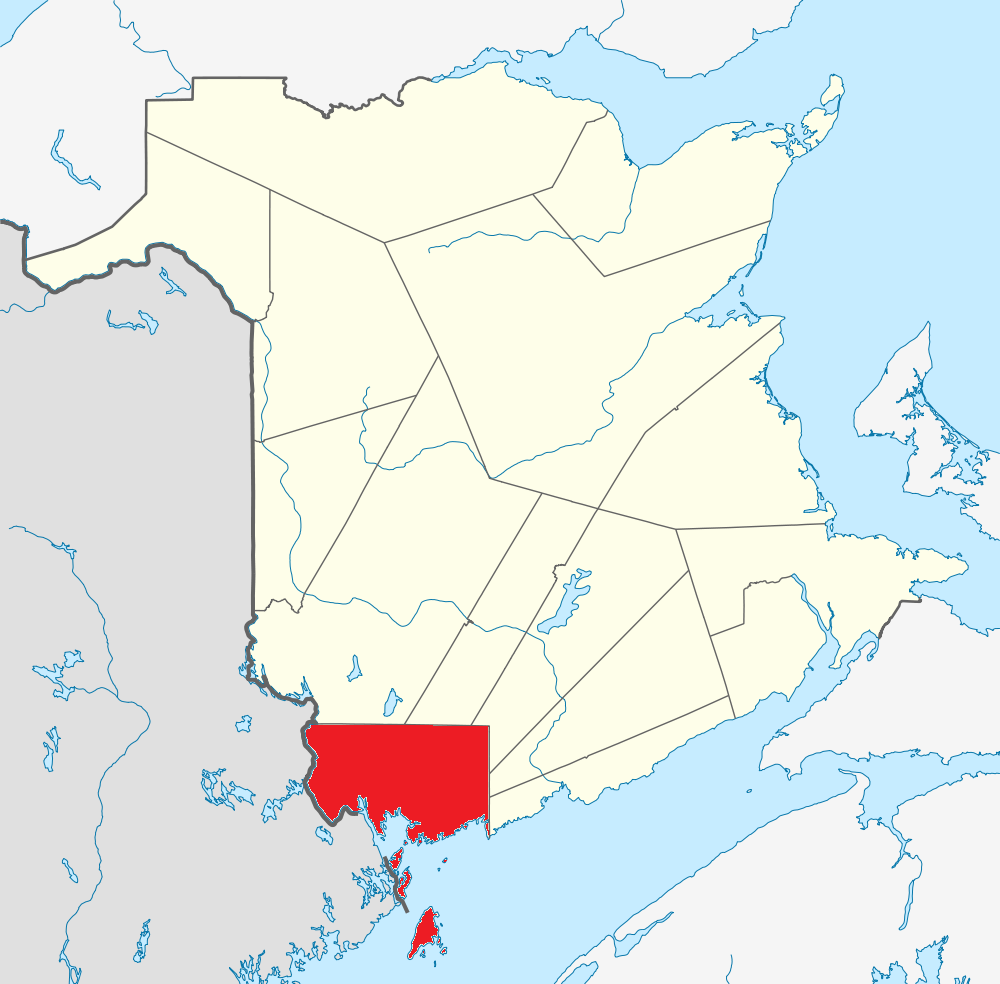 Map of New Brunswick highlighting Charlotte County